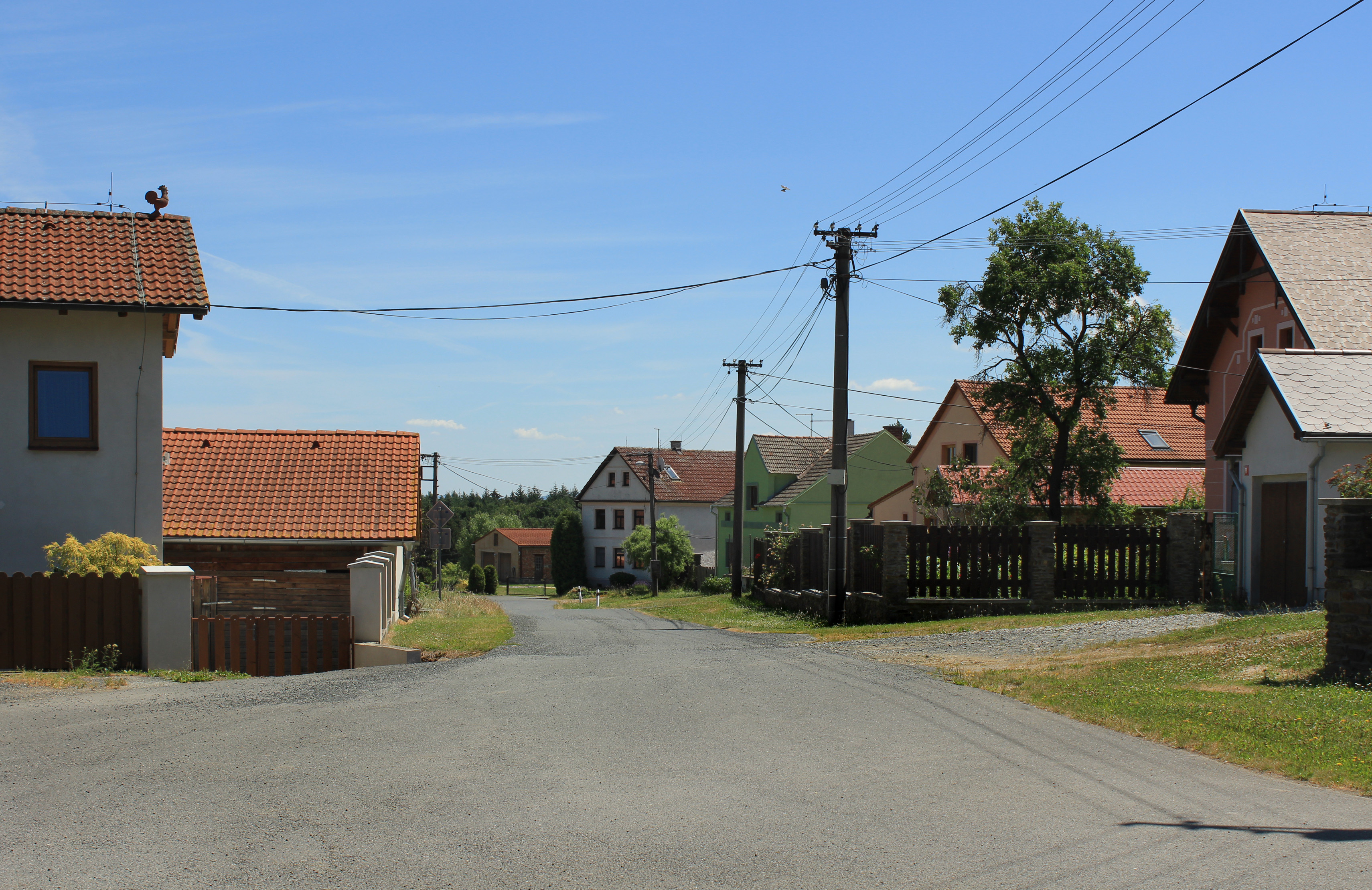 Side street in Sedlec, part of Poběžovice, Czech Republic.